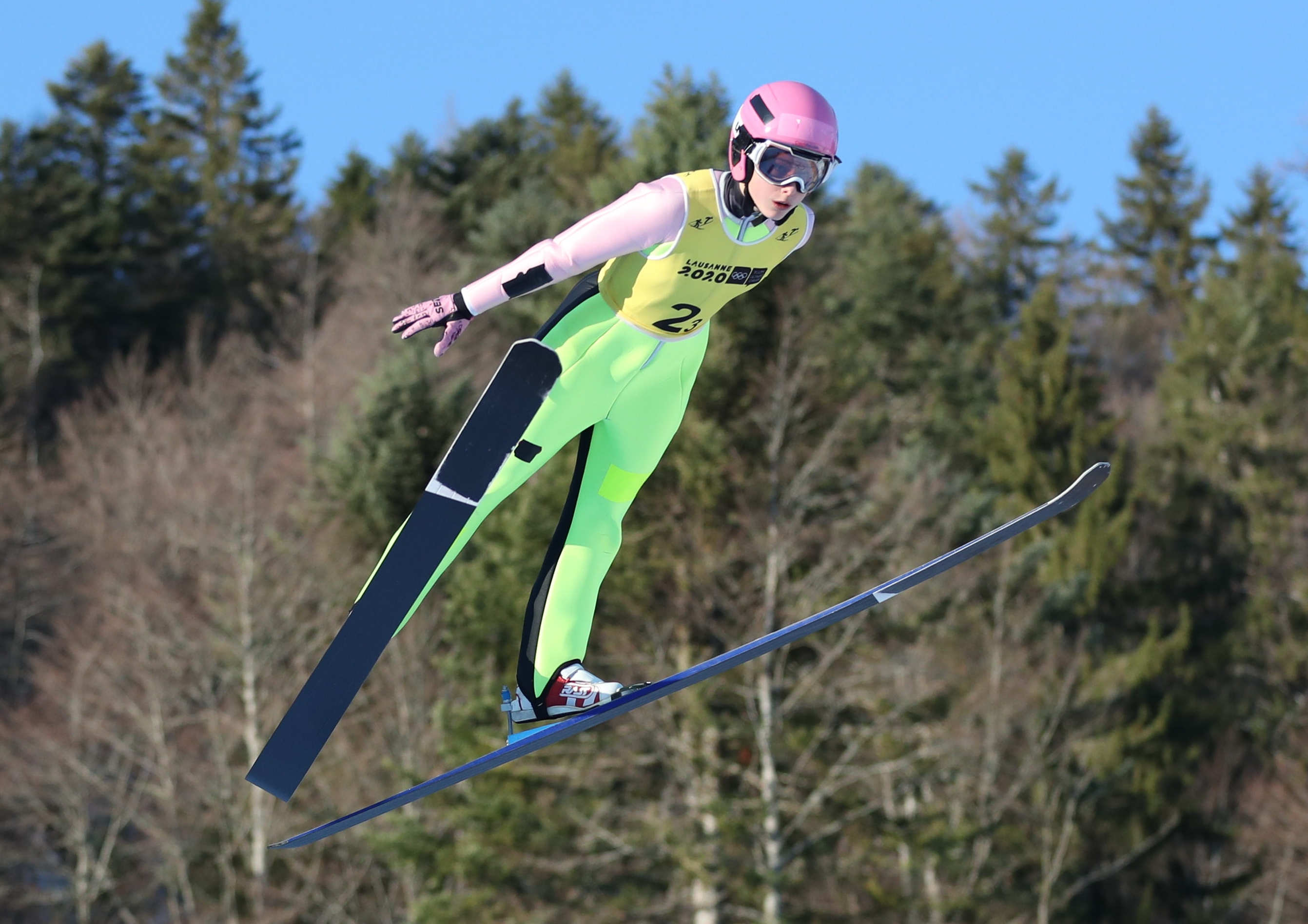 Trial round Ski Jumping normal hill at the Nordic Mixed Team competition at the 2020 Winter Youth Olympics in Lausanne